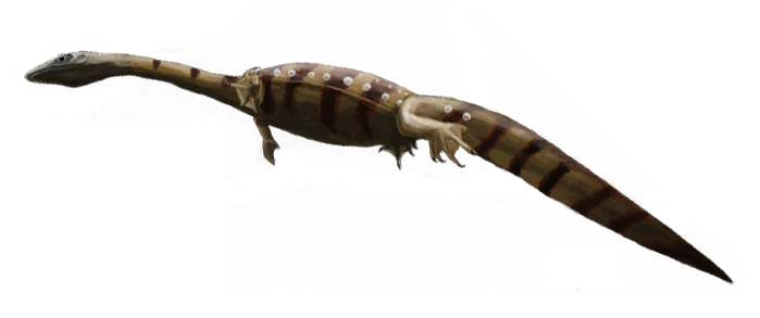 Life restoration of the aquatic choristoderan Hyphalosaurus lingyuanensis, based on the specimen PKUP V1052 as described by Gao & Ksepka, 2008. Gao, K.-Q. and Ksepka, D.T. (2008). "Osteology and taxonomic revision of Hyphalosaurus (Diapsida: Choristodera) from the Lower Cretaceous of Liaoning, China." Journal of Anatomy, 212(6): 747–768.